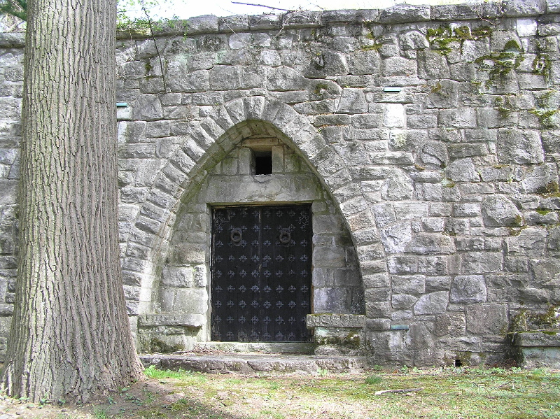 I took this photograph of the unmarked mausoleum of Rabbi Steven Wise in Westchester Hills Cemetery in Hastings-on-Hudson, New York.